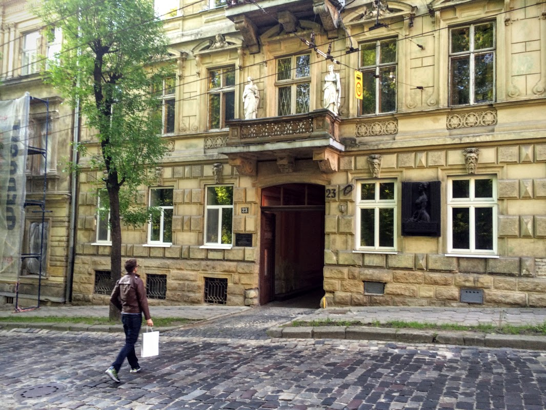 A picture of 23 Solomiya Krushelnytska Street in Lviv Ukraine. Building houses the Solomiya Krushelnytska museum.